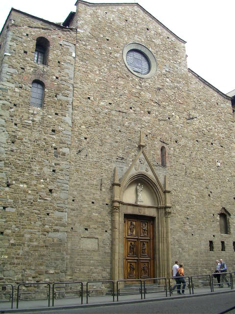 Santa Maria Maggiore, church facade in Florence, Italy